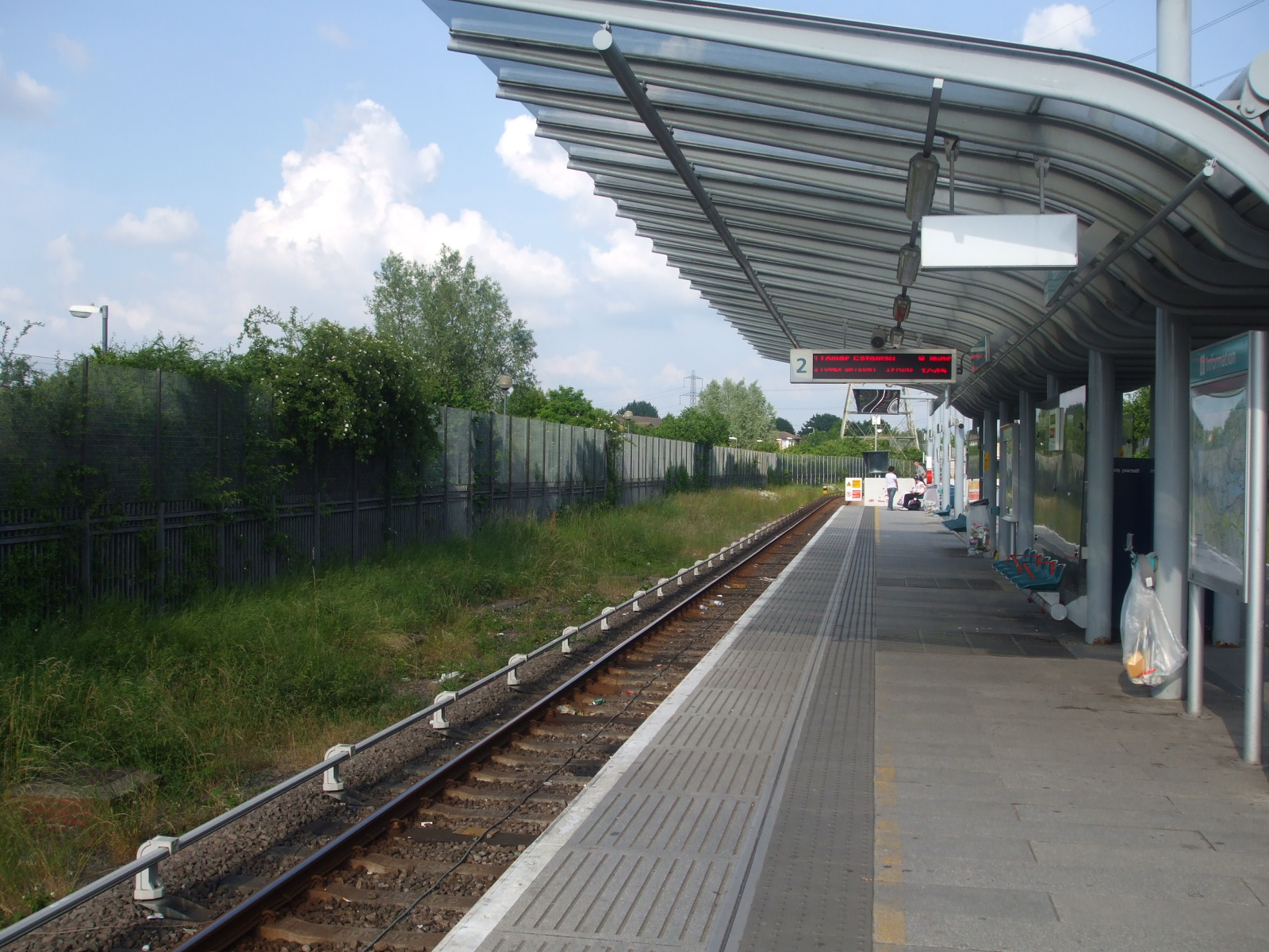 Beckton DLR station looking east (actually due to loop line, towards London!)